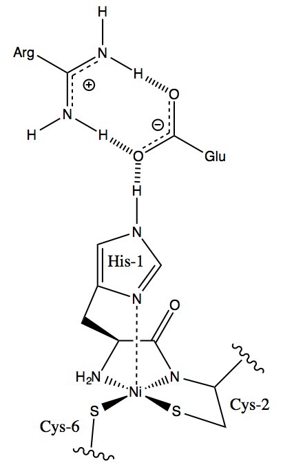 NiSOD active site